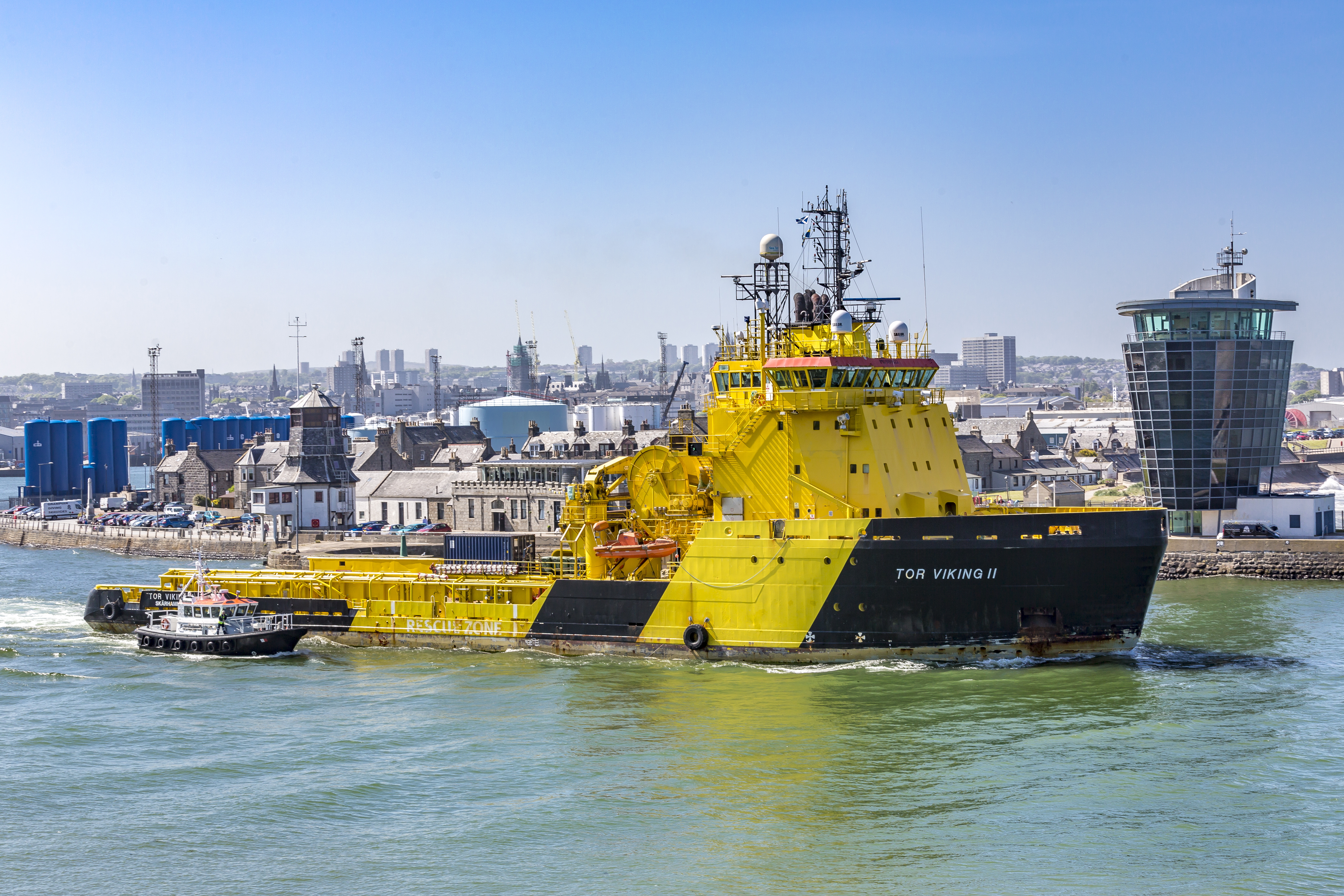 IMO: 9199622 MMSI: 266004000 Call Sign: SLJT Flag: Sweden [SE] AIS Type: Tug Gross Tonnage: 3382 Deadweight: 2600 t Length Overall x Breadth Extreme: 83.7m × 18.04m Year Built: 2000